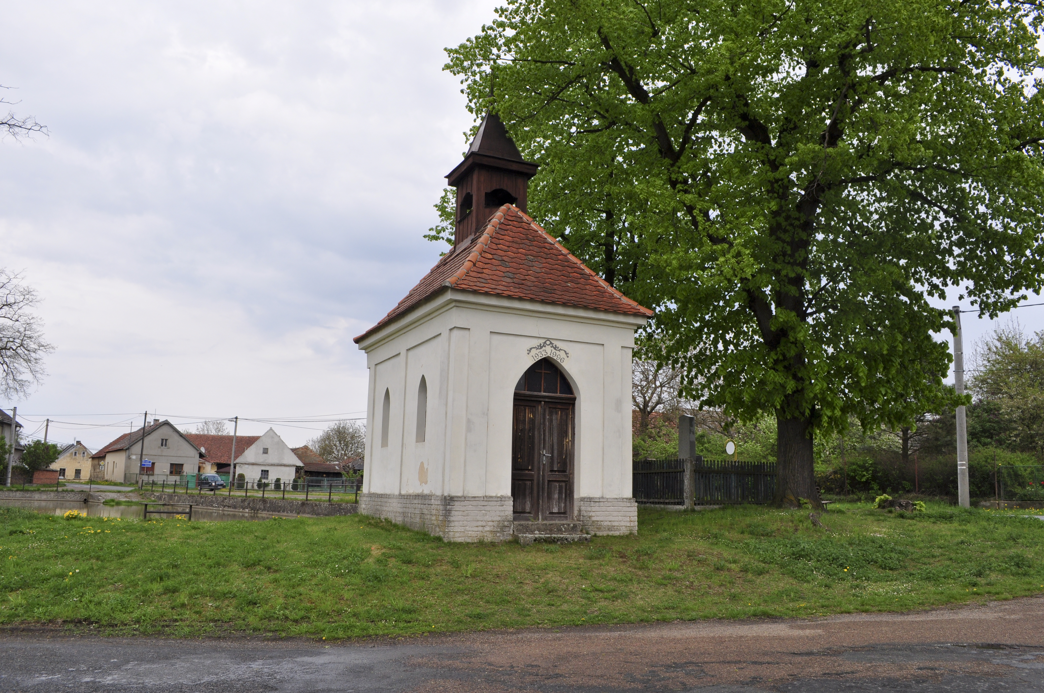 Štítov - chapel